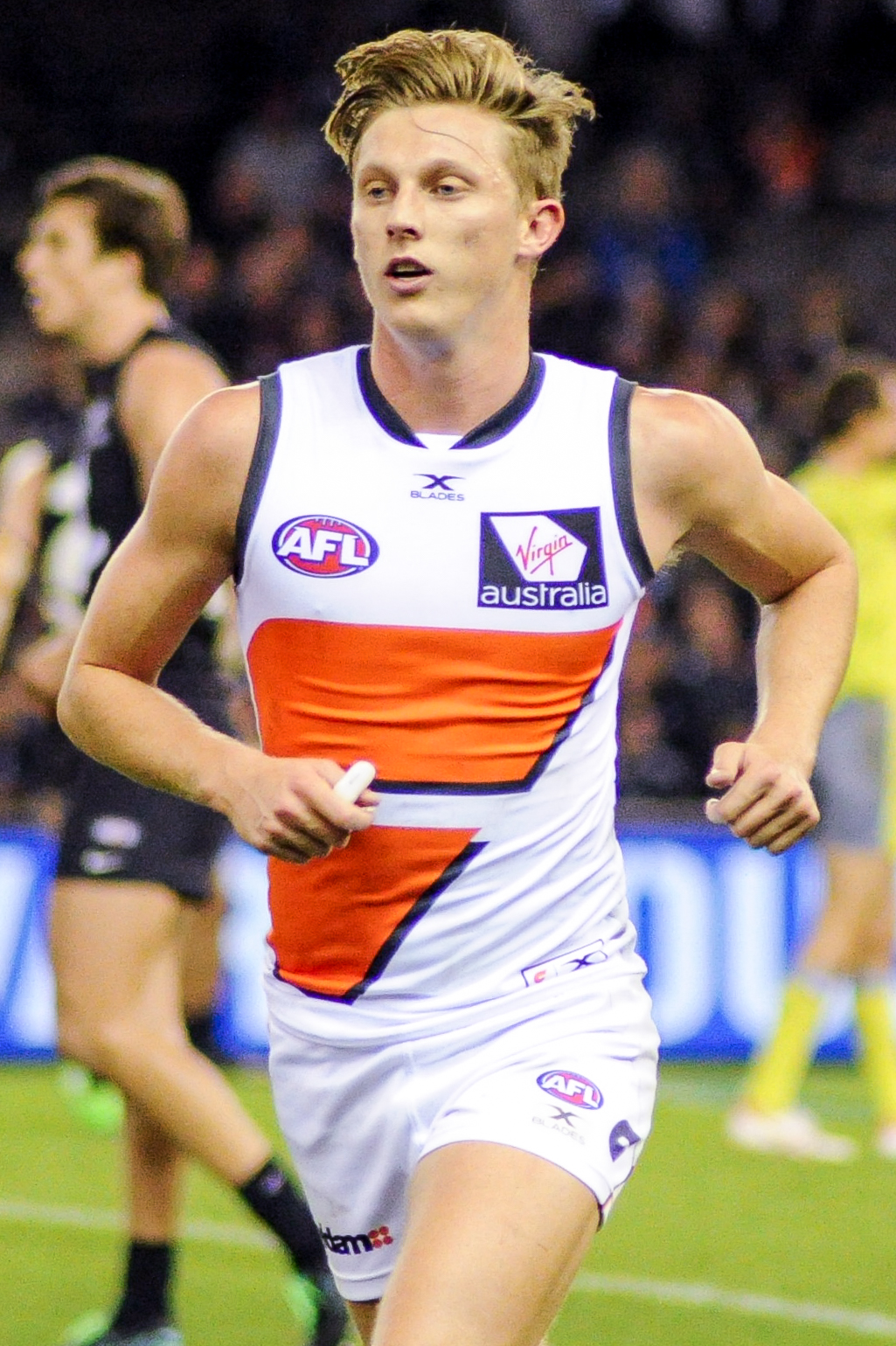 Lachie Whitfield during the AFL round twelve match between Carlton and Greater Western Sydney on 11 June 2017 at Etihad Stadium in Melbourne, Victoria.